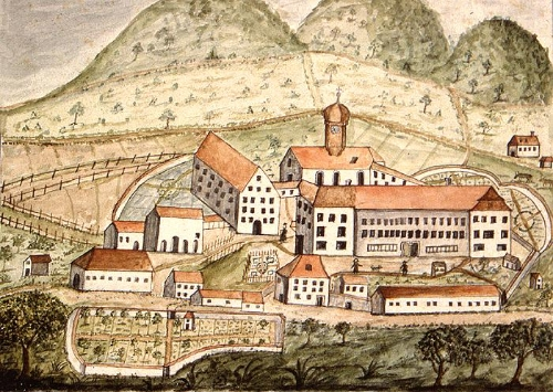 Amtenhausen Abbey